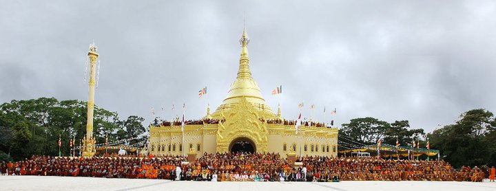 Berastagi, Transport